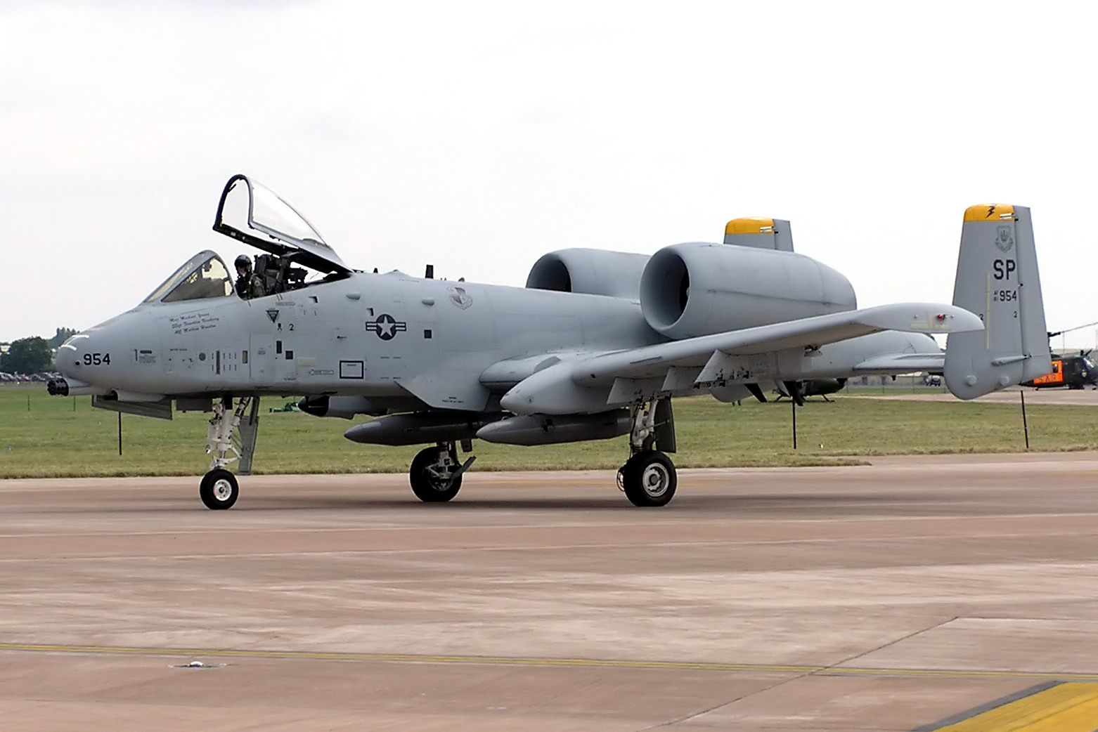 USAF OA/A-10A Thunderbolt taxying at the Royal International Air Tattoo, Fairford, Gloucestershire, England.